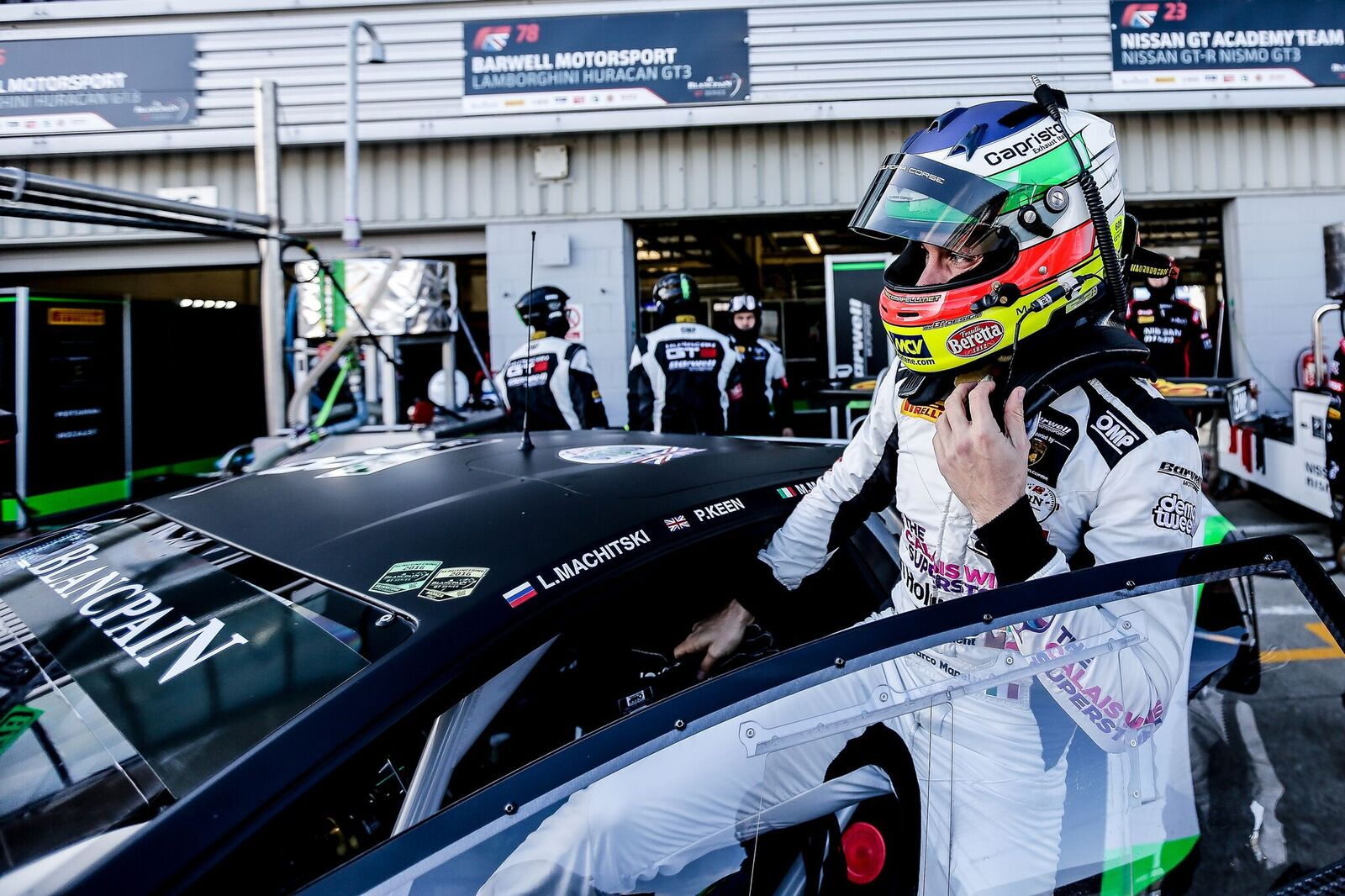 Blancpain Endurance Series 2016